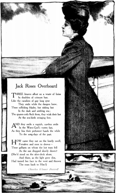 illustrated poem by C W Barrell